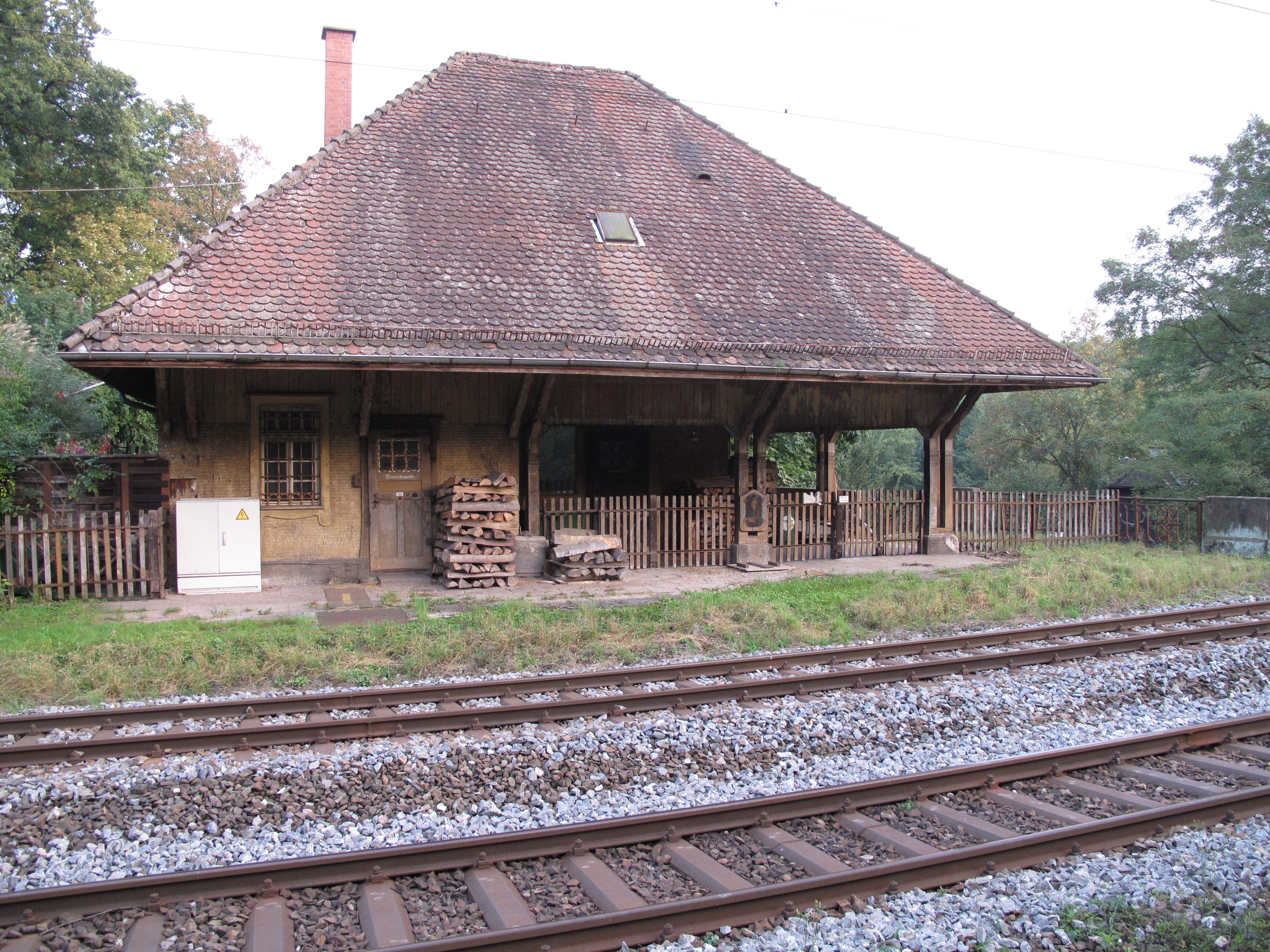 Former flag stop "Stuttgart-Wildpark" of the South-German "Gaeubahn" (Stuttgart-Singen)